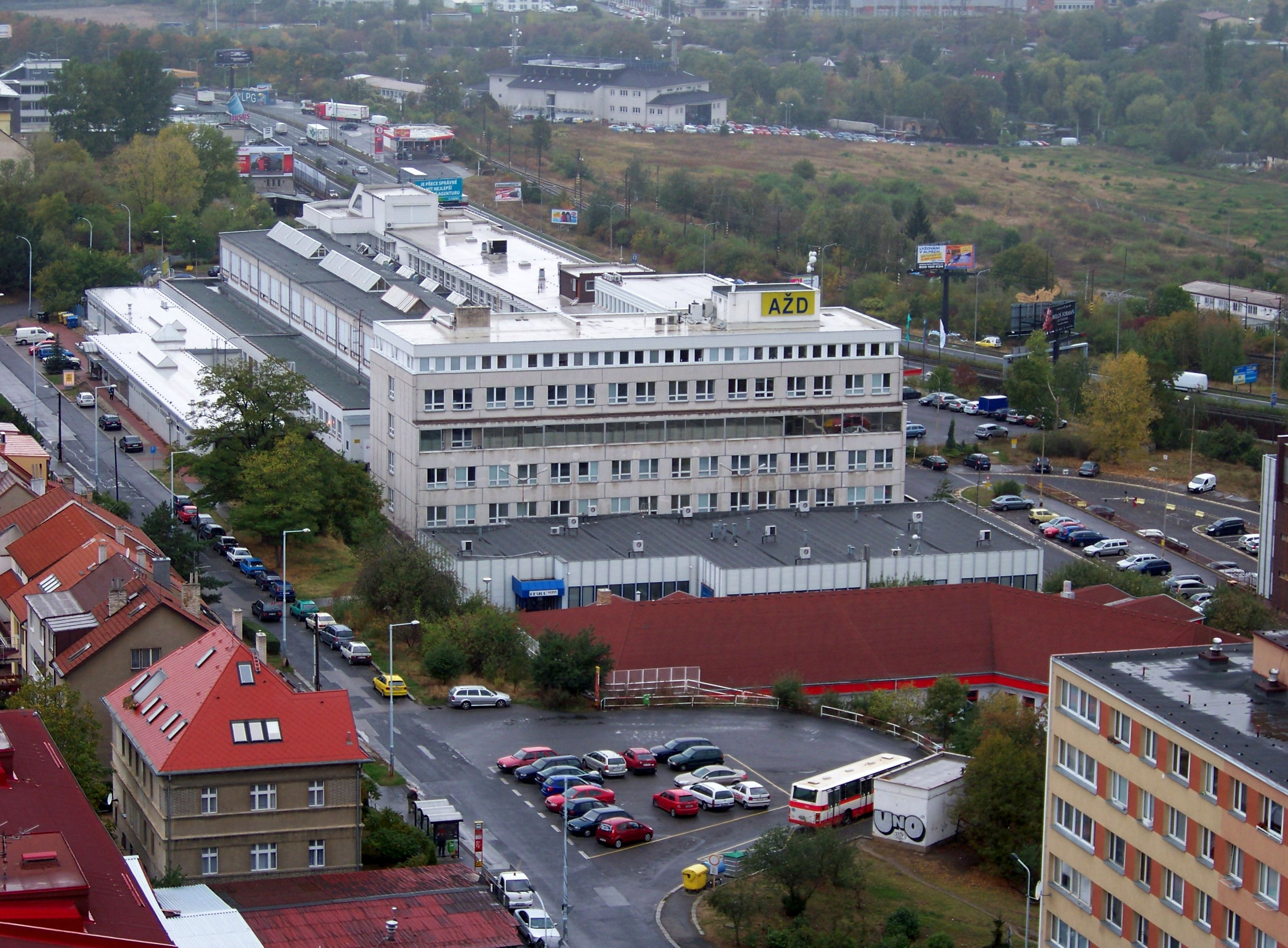 A view from the west side of Arnika Building (Záběhlice, Prague, the Czech Republic). AŽD Praha building.